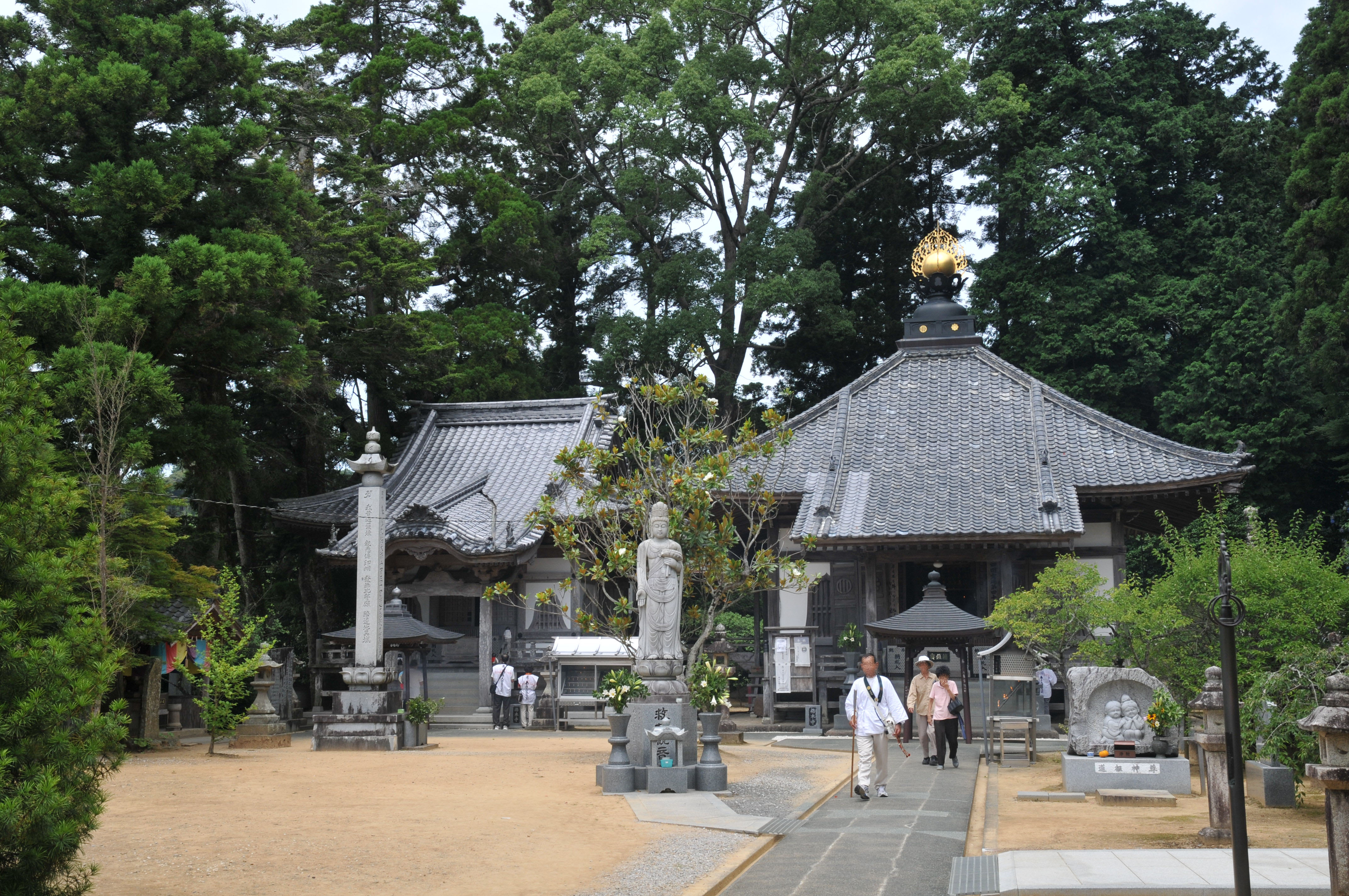 Main temple(right) and Daishi-dō(left), Butsumoku-ji